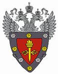 Emblem of the Federal Service for Technical and Export Control of the Russian Federation. An agency subordinate to the Defense Ministry of the Russian Federation.